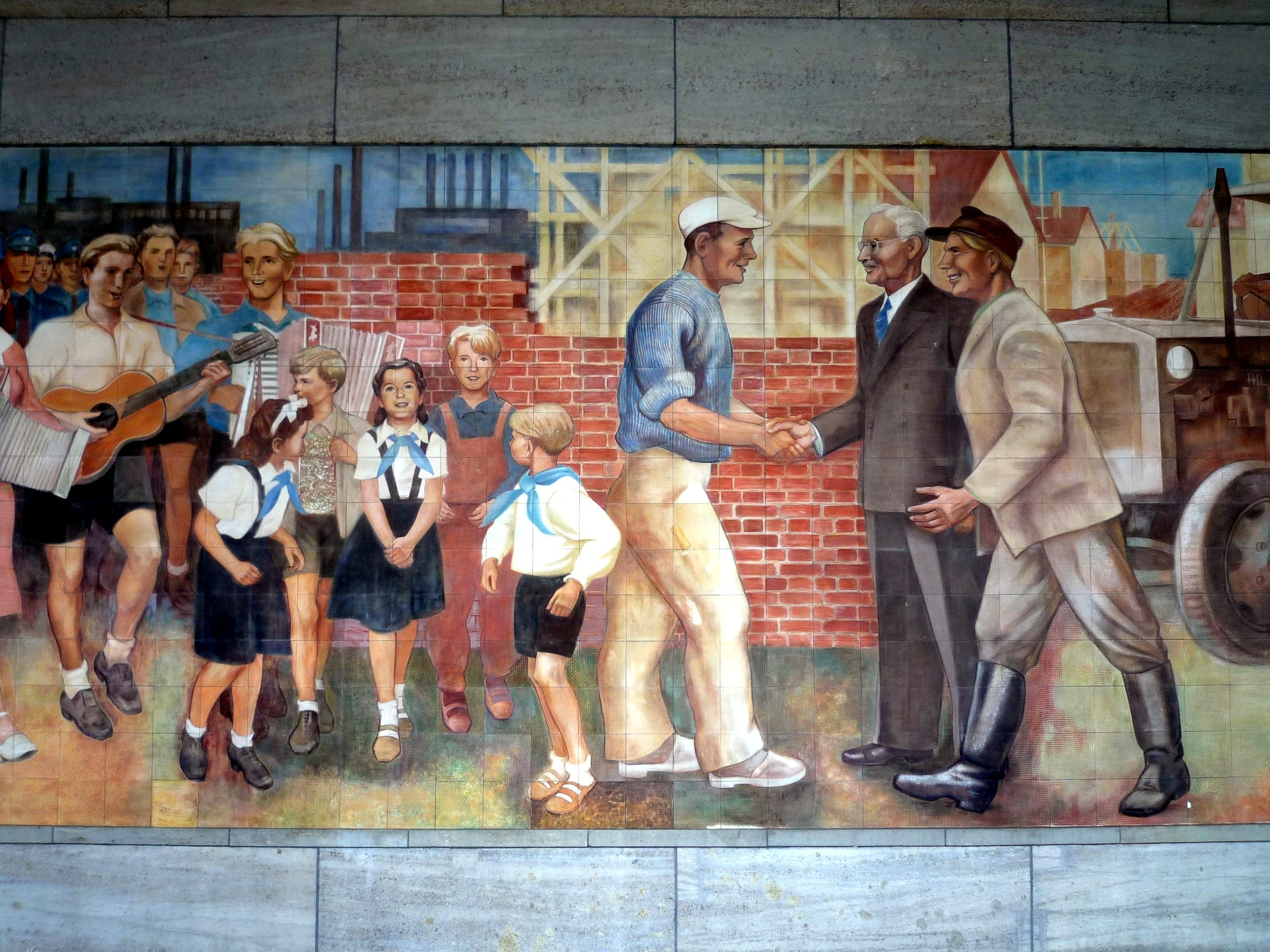 Mural painting "Building of the republic" by Max Lingner at the "Detlev-Rohwedder-Haus" in Berlin, the former "House of Ministries" of the GDR. The paintig was made in 1950-1953. Partial view.